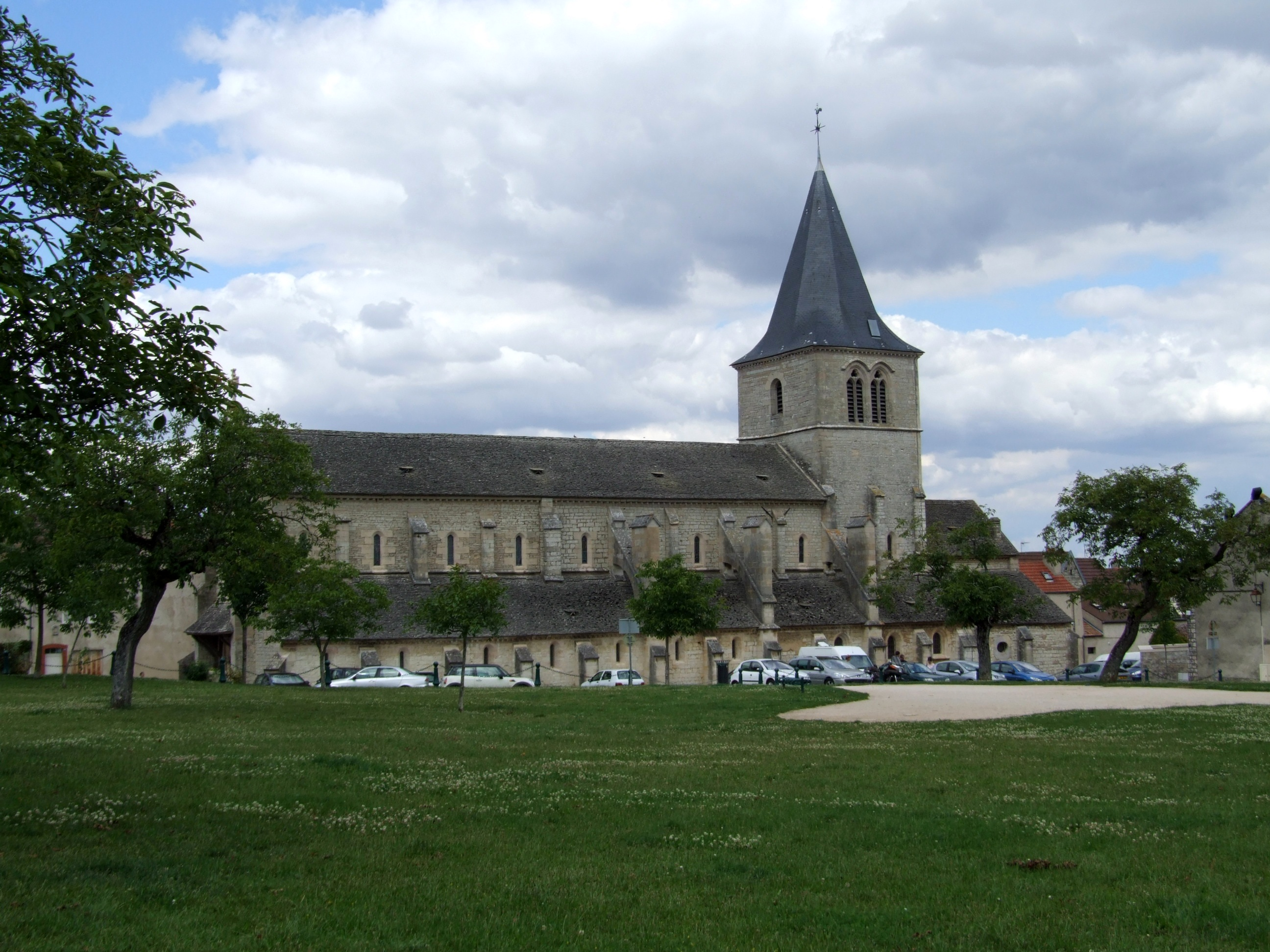 Talant, Burgundy, FRANCE